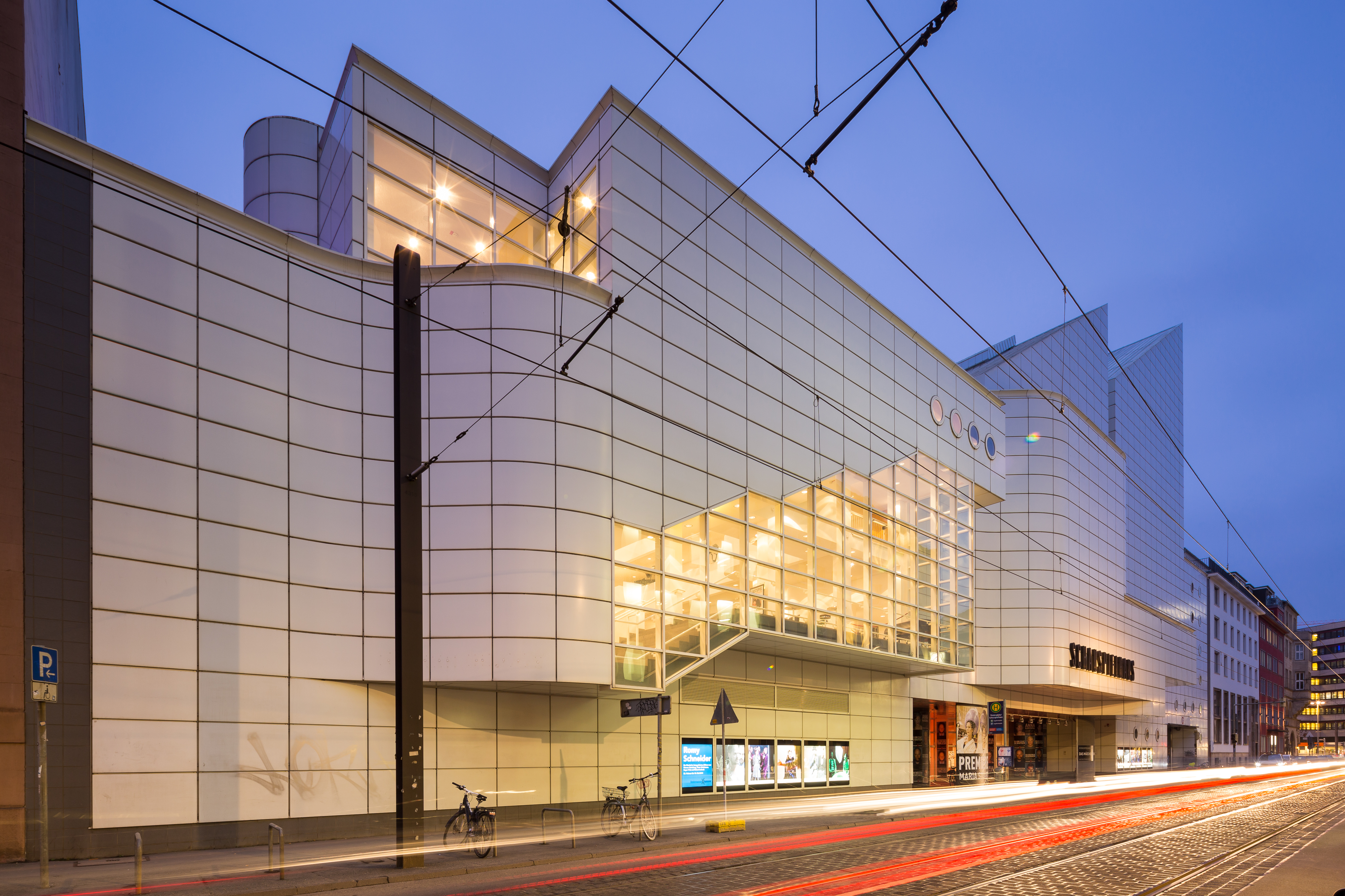 Schauspielhaus Hannover theater building located at Prinzenstrasse in Mitte district of Hanover, Germany.